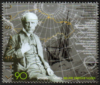 Stamp of Armenia